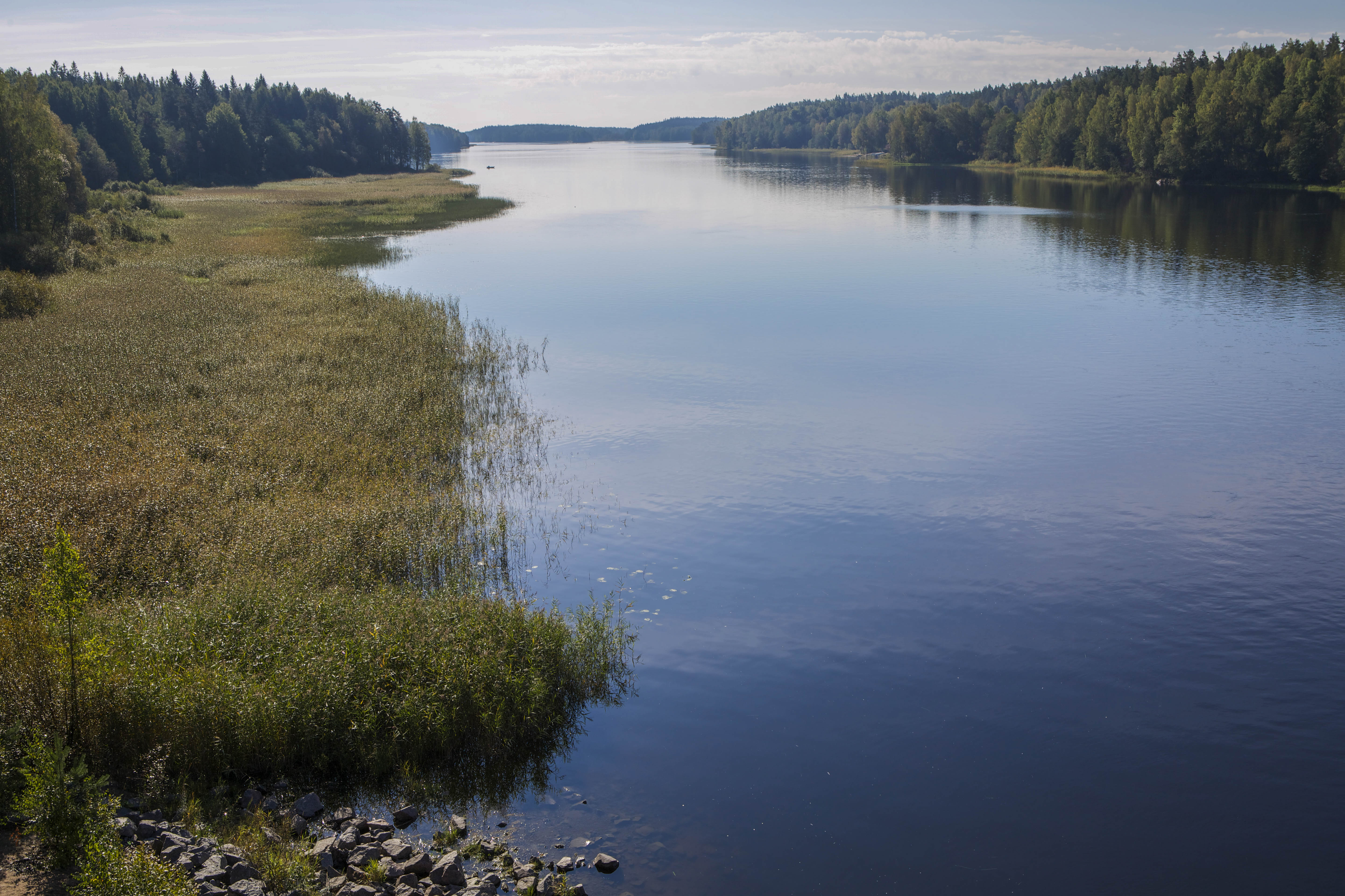 Vuoksi river, Karelian Isthmus, Russia